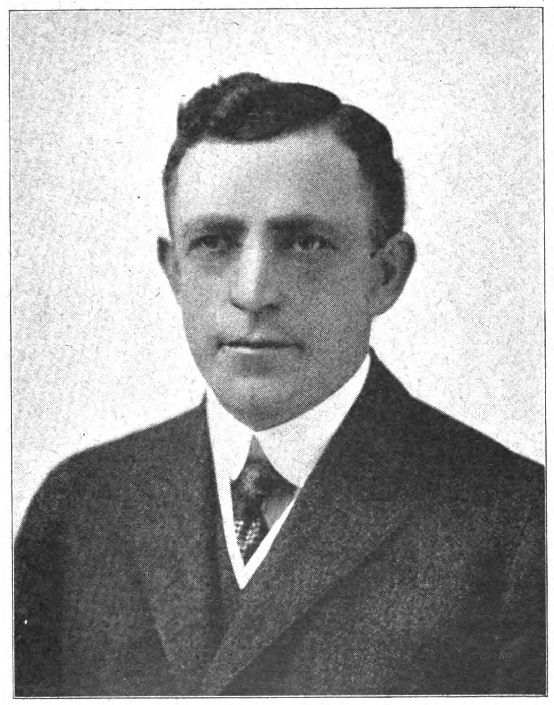 Joseph McGhee in 1918.